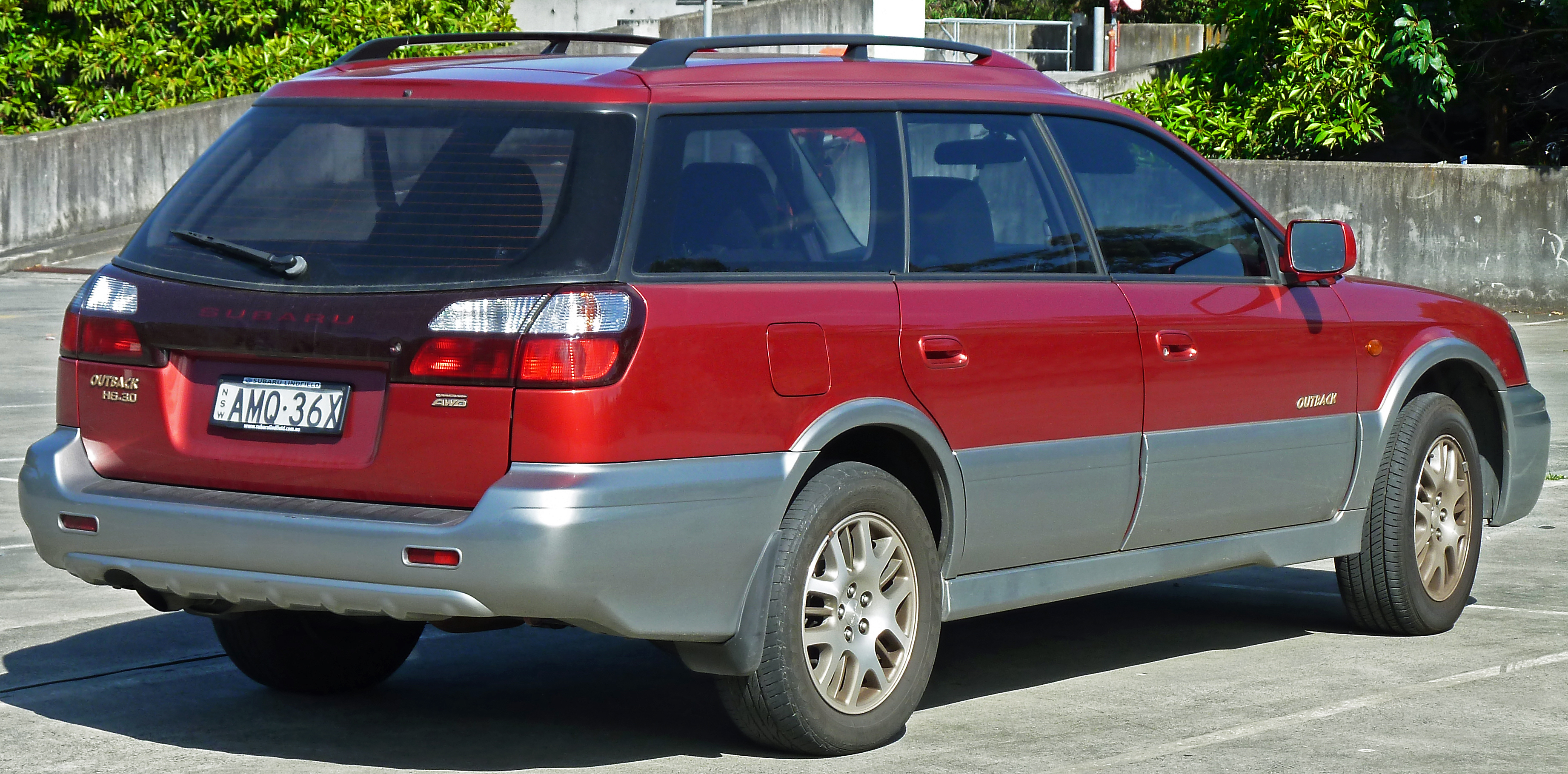 2002 Subaru Outback (BHE MY03) H6 station wagon. Photographed in Macquarie Park, New South Wales, Australia.